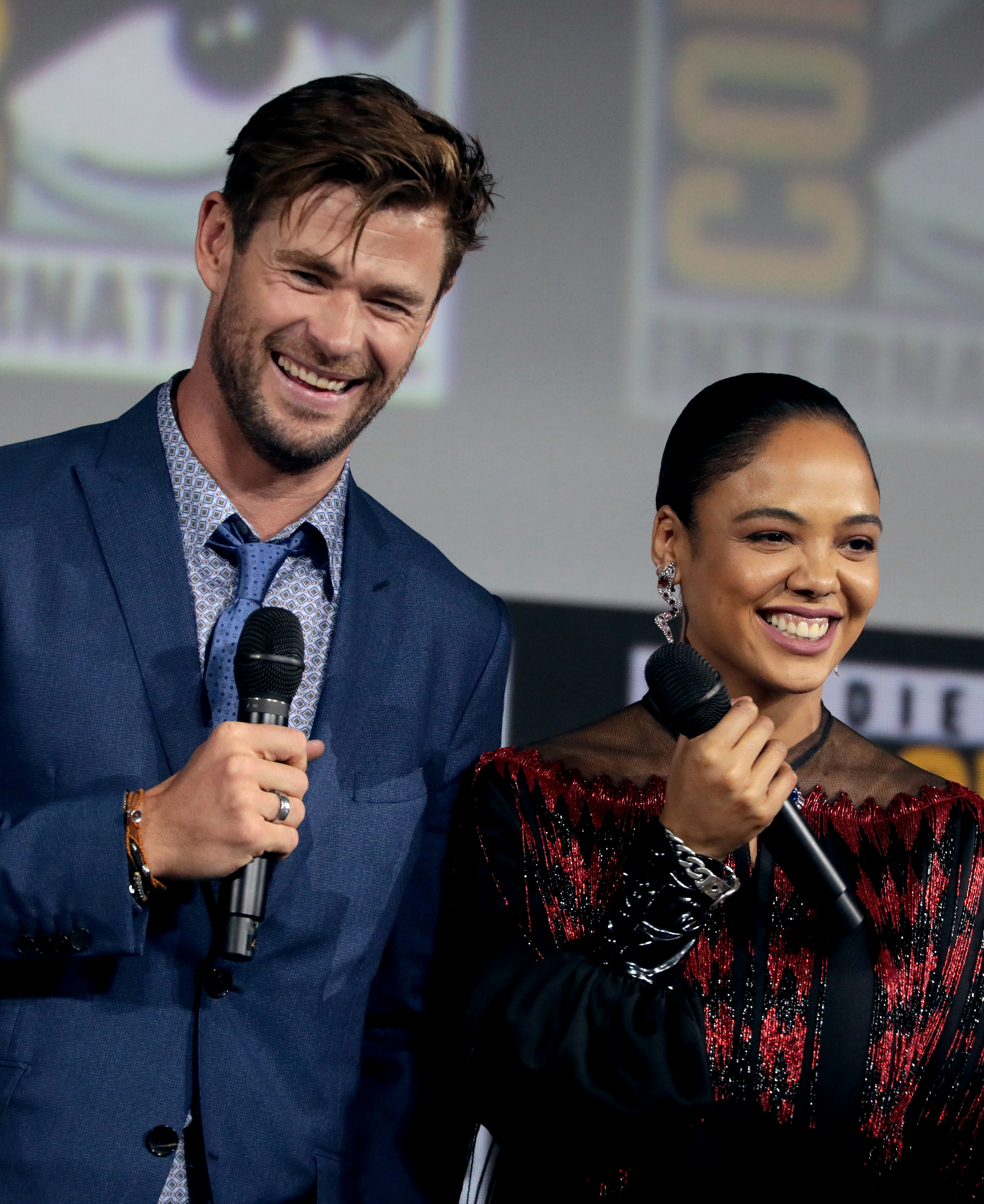 Chris Hemsworth and Tessa Thompson speaking at the 2019 San Diego Comic Con International, for "Thor: Love and Thunder", at the San Diego Convention Center in San Diego, California.